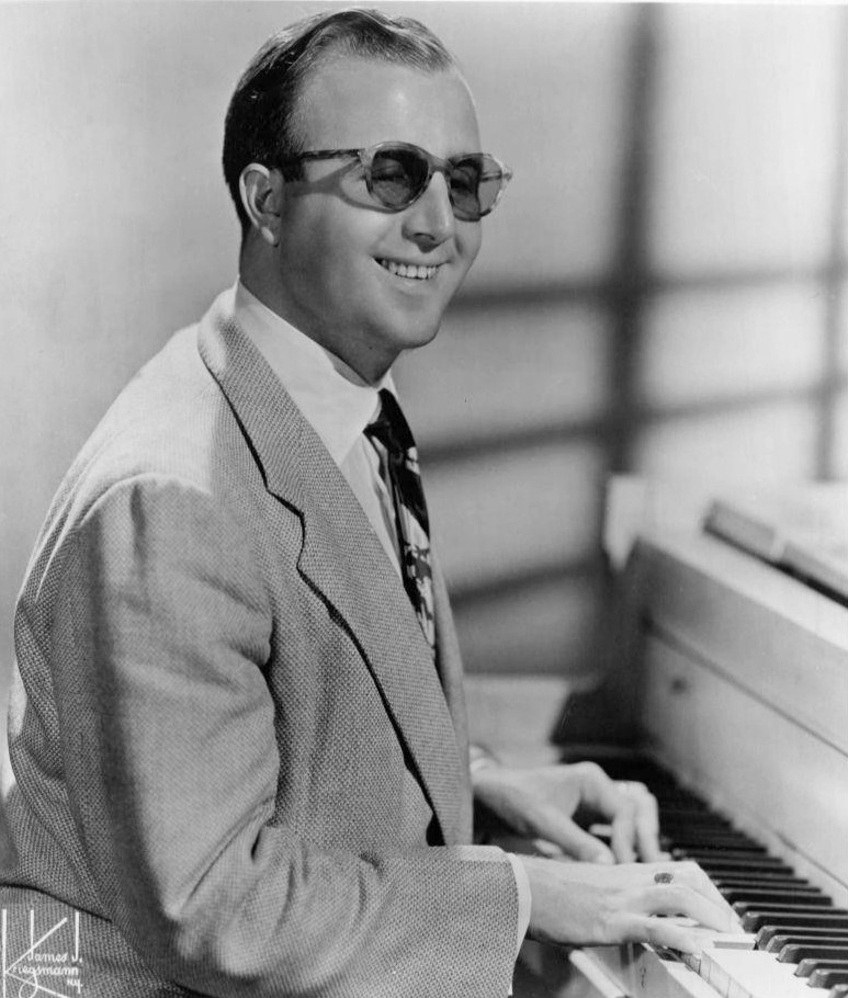 Photo of pianist George Shearing.